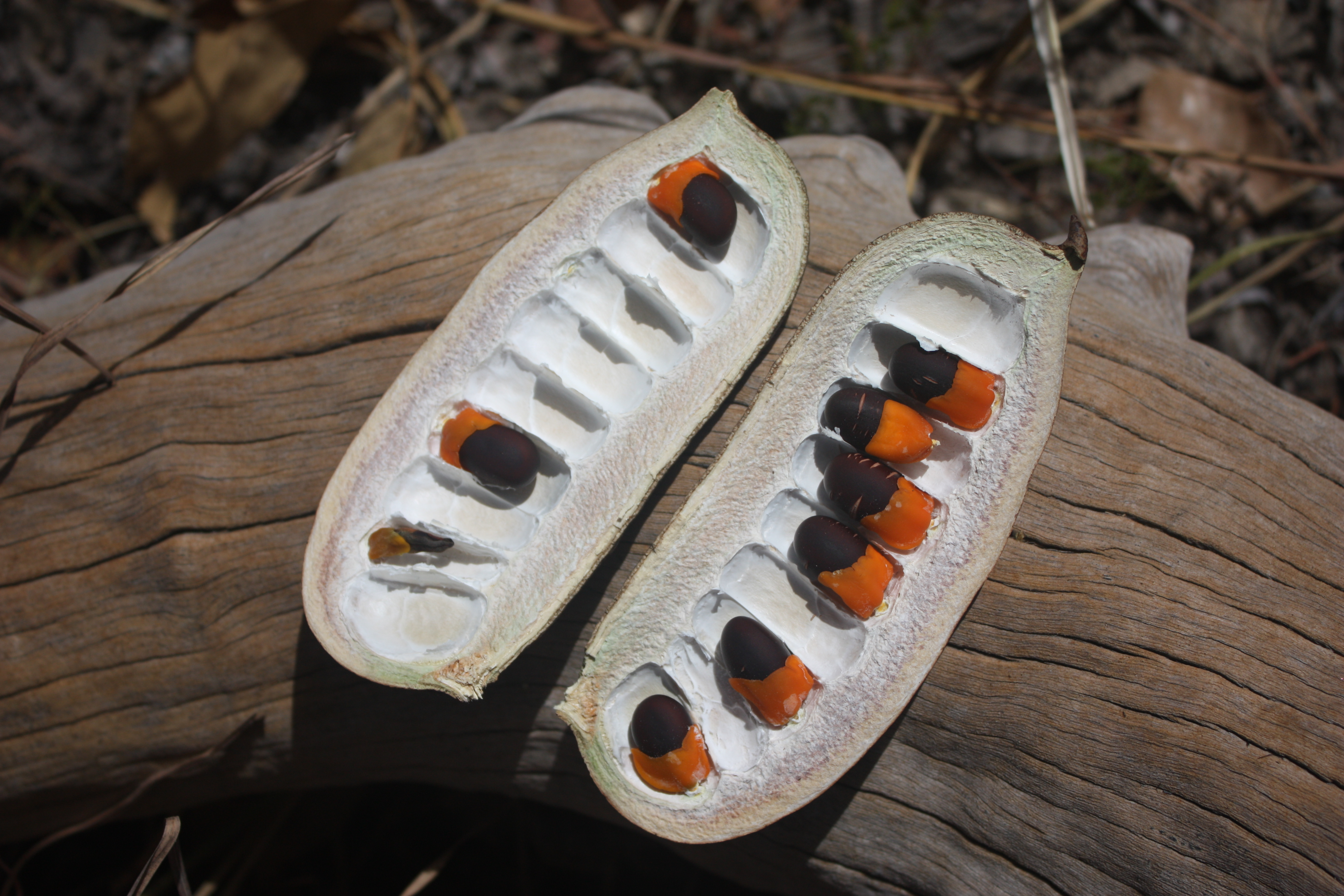 Pod and seeds of Afzelia africana, Ranch de Nazinga, southern Burkina Faso